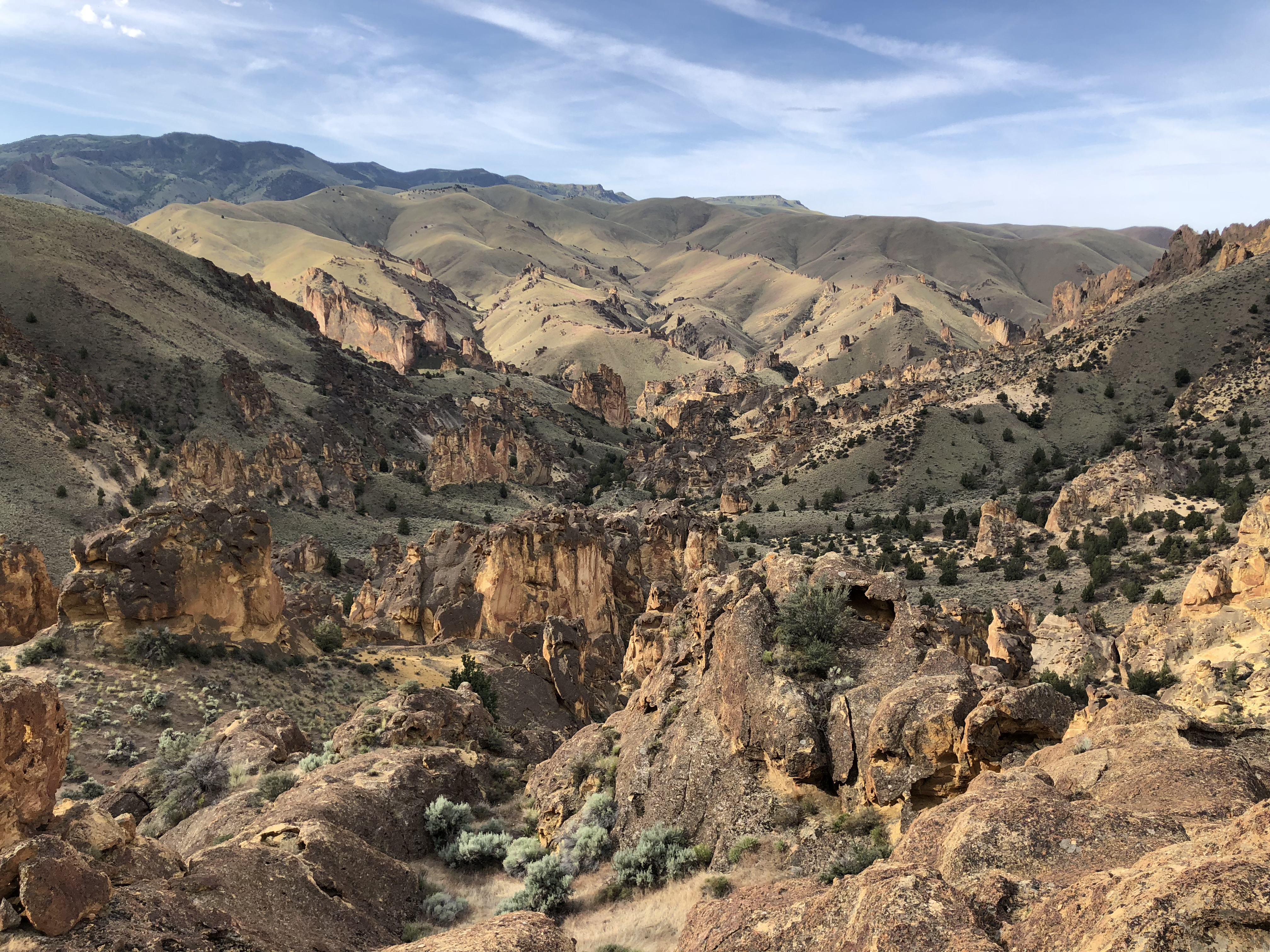 A view of Juniper Gulch, part of the greater Leslie Gulch area.